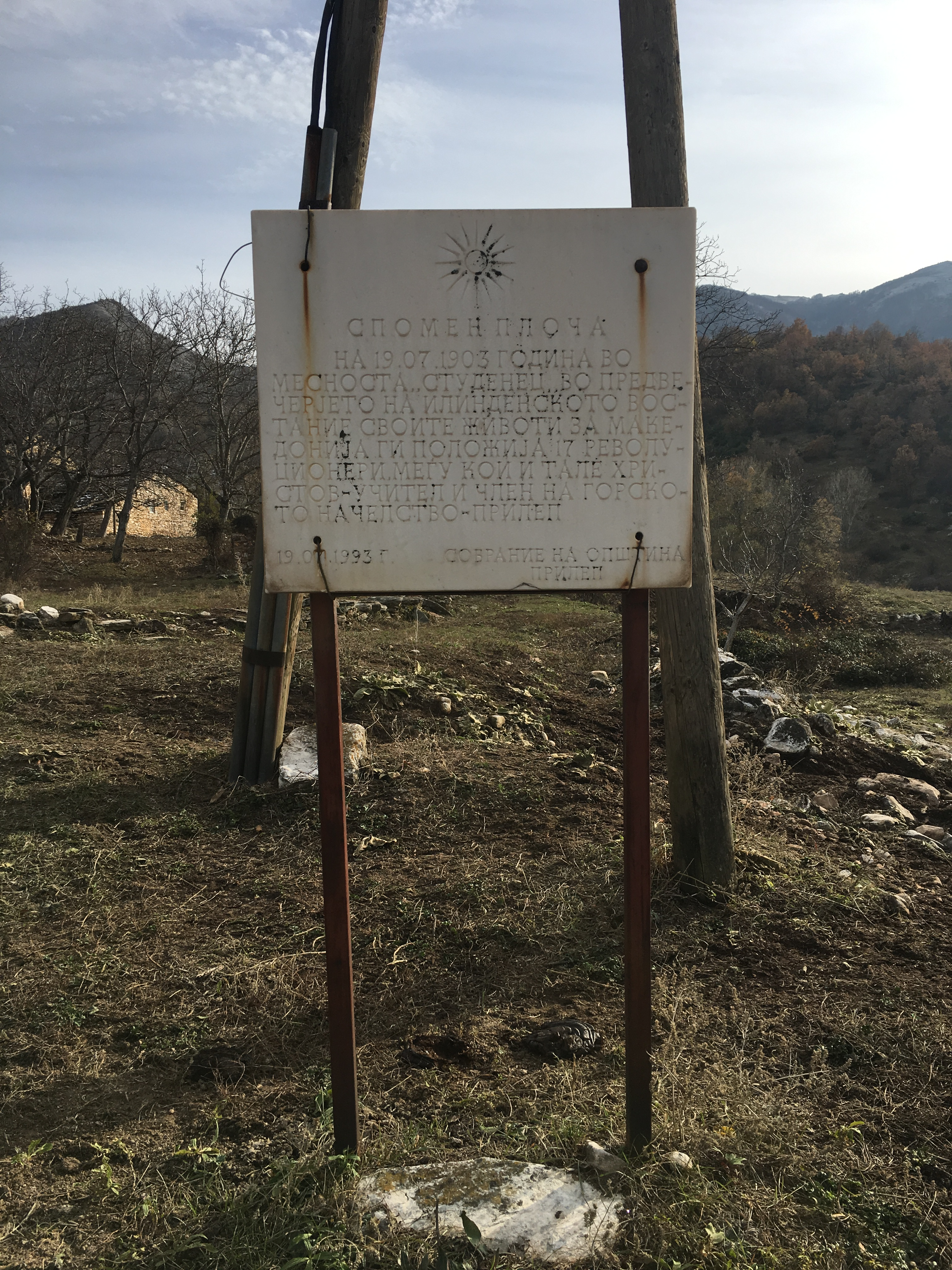 Ilinden Uprising monument in the village of Belovodica